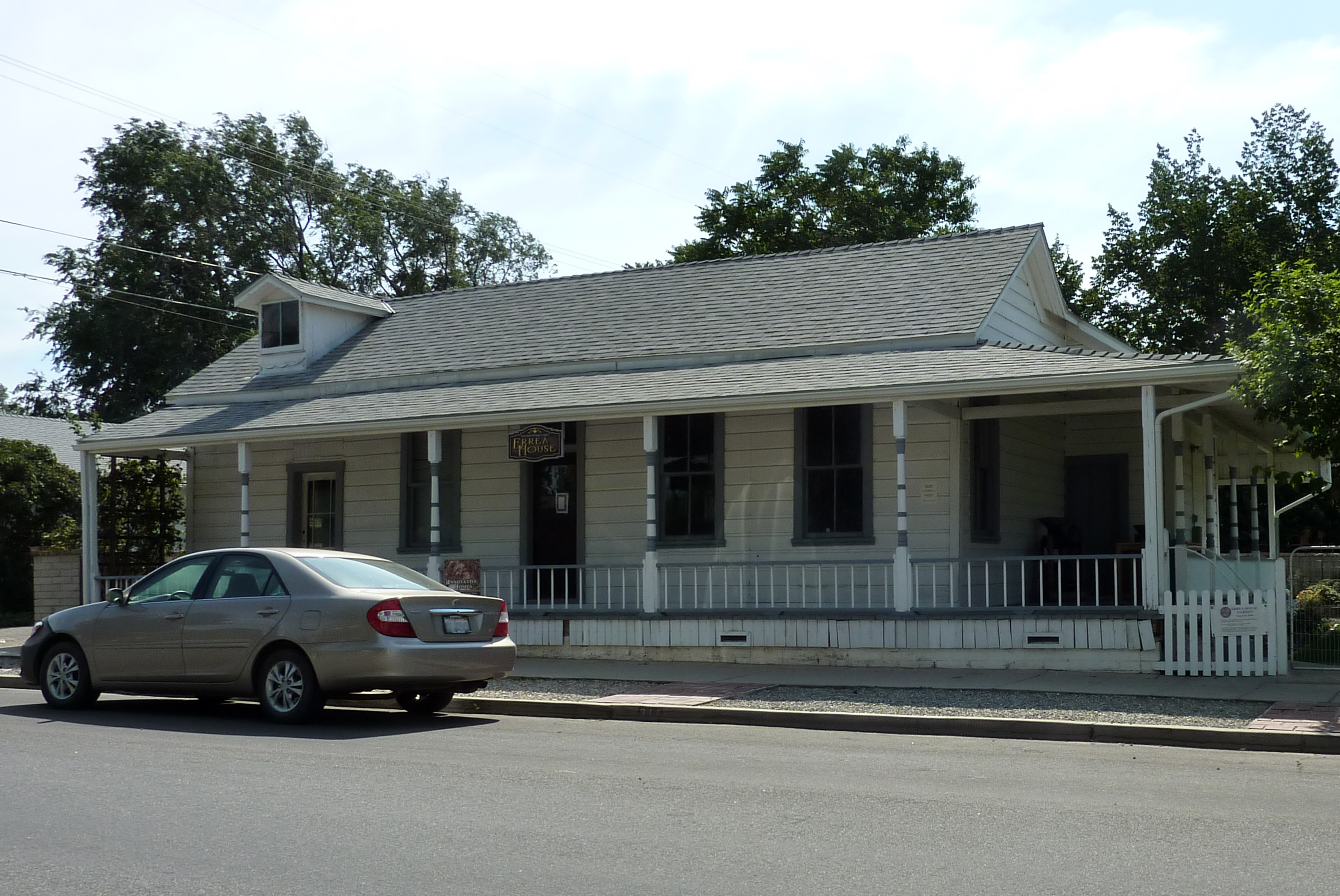 Errea House — a historic house museum at Tehachapi, California. The 1870s house is on the National Register of Historic Places in Kern County, California.